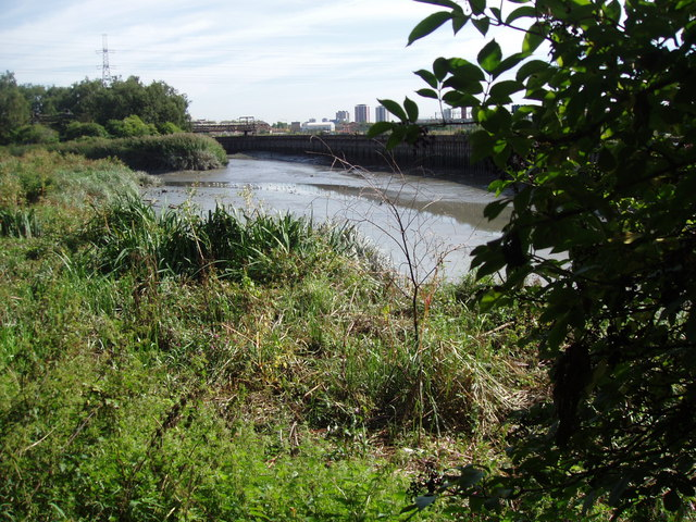 Channelsea River. The rivers and canals on the site of the 2012 Olympics are a haven for wild-life so close to the City. The banks are overgrown with brambles and weeds; there are supermarket trolleys in the mud. It's not pretty - but it does serve a purpose. Scenes like this will disappear when the bulldozers move in.